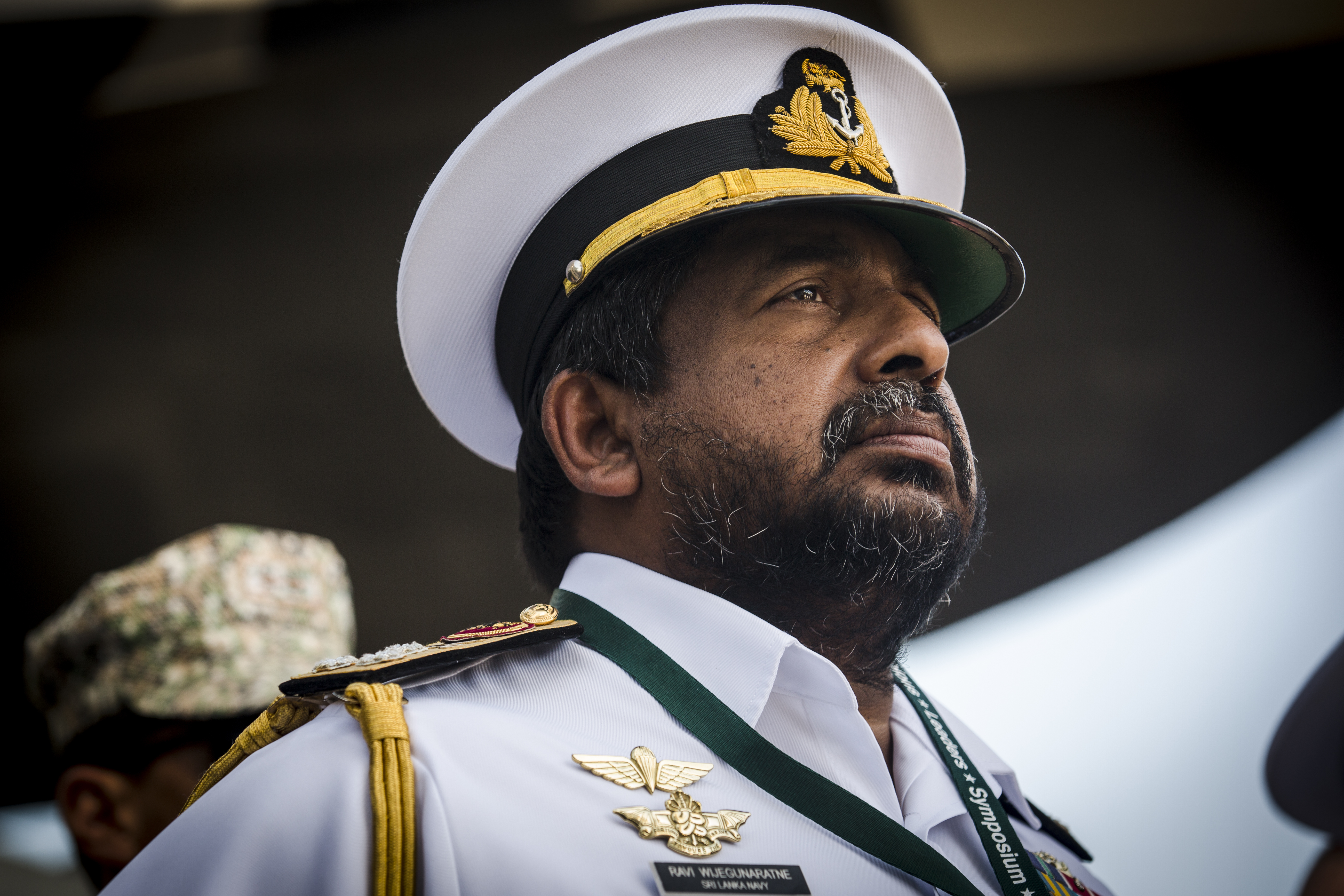 Vice Admiral Ravindra C. Wijegunaratne, Commander of the Sri Lankan Navy, listens during a discussion at the USPACOM Amphibious Leaders Symposium 2016 (PALS-16) at sea, near Camp Pendleton, Calif., on July 13, 2016. PALS brings together senior leaders of allied and partner nations from the Indo-Asia Pacific region to discuss key aspects of maritime/amphibious operations, capability development, crisis response, and interoperability. Twenty-two countries, including the U.S., are participating. (U.S. Marine Corps photo by Lance Cpl. Danny Gonzalez/Released)